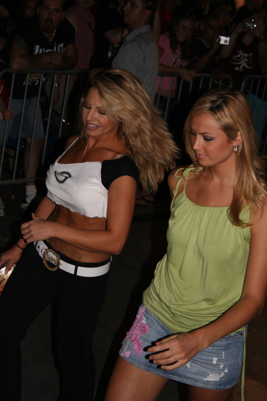 Trish Stratus and Stacy Keibler during a WWE house show held in Kitchener, Ontario, Canada on August 12, 2005.trish and stacey